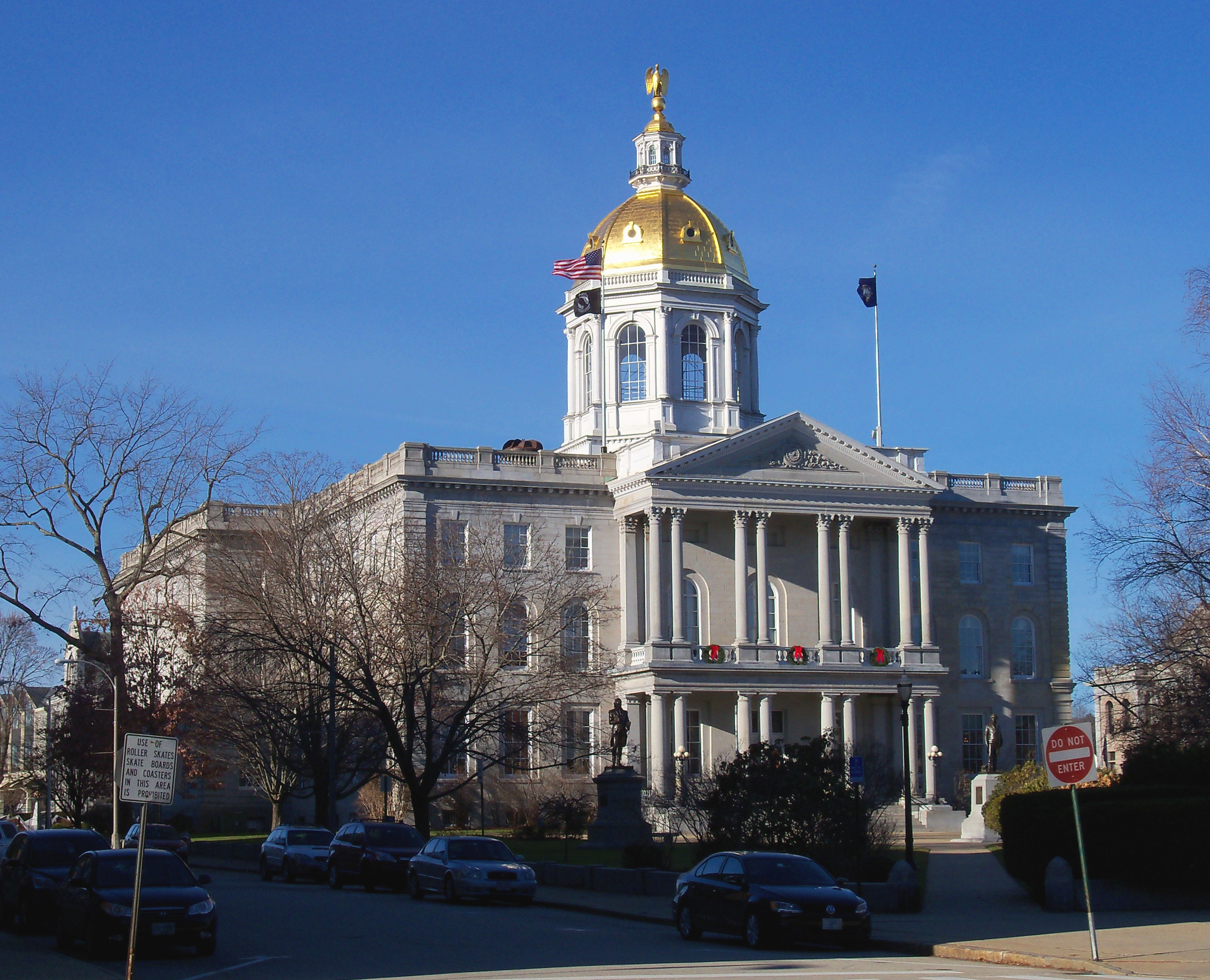 New Hampshire State House in Concord.